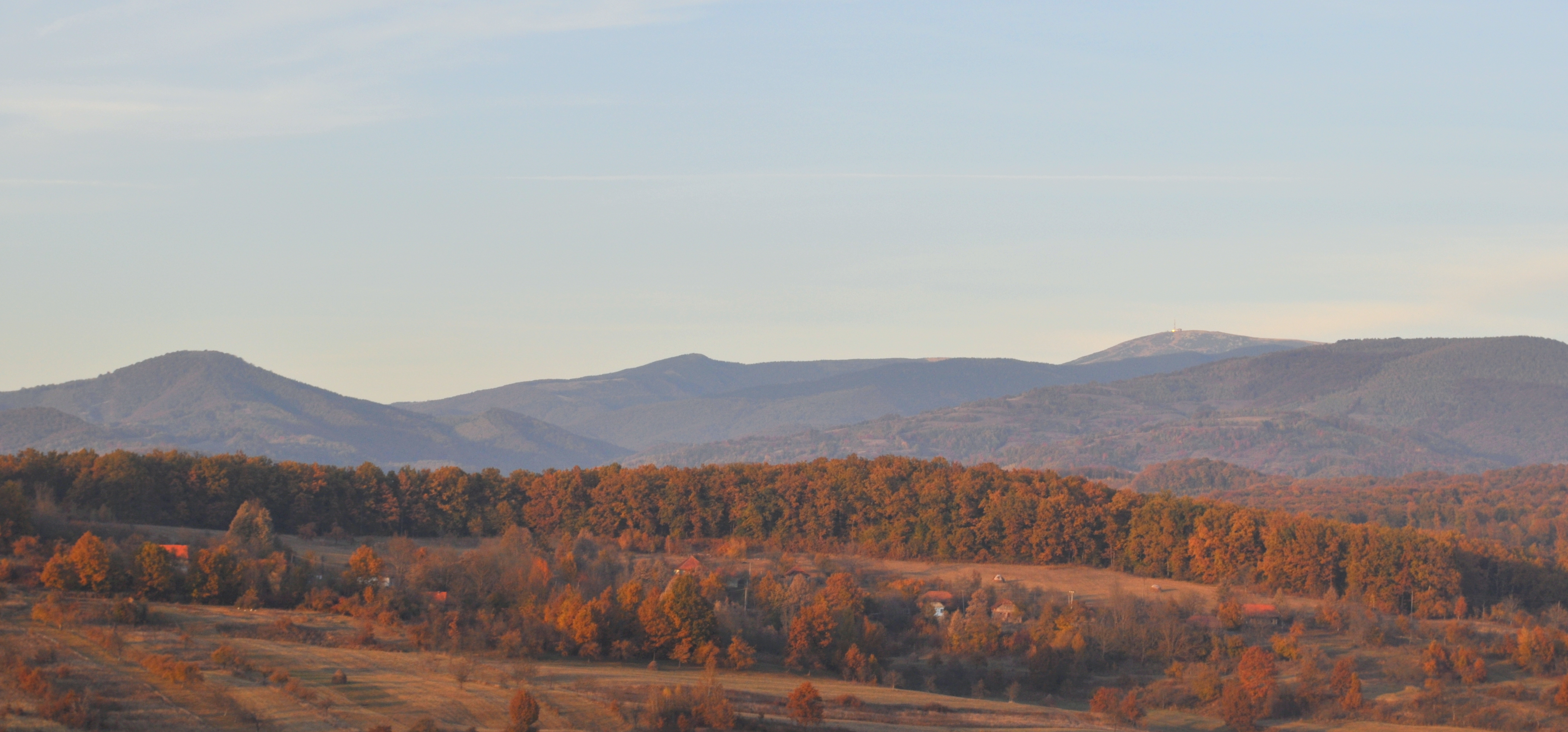 The main peaks in the Apuseni MountainsRomână: Vârfurile principale ale Munților Apuseni